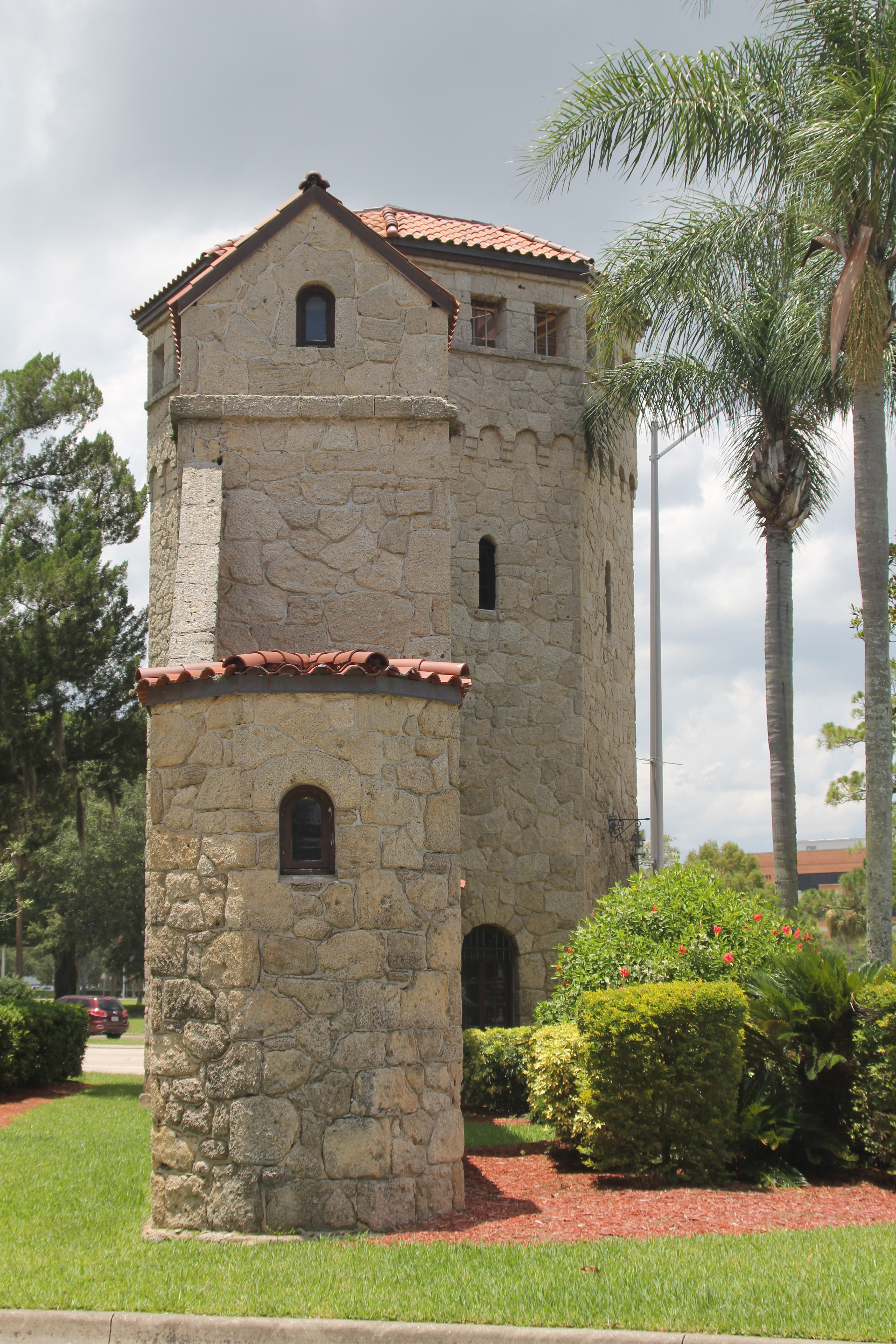 Randy Jaye, personal photograph